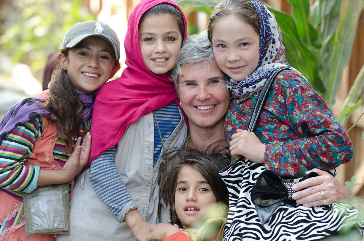 Children at the HQ ISAF, Kabul Women’s Bazaar with Laura Walko, civilian employee.